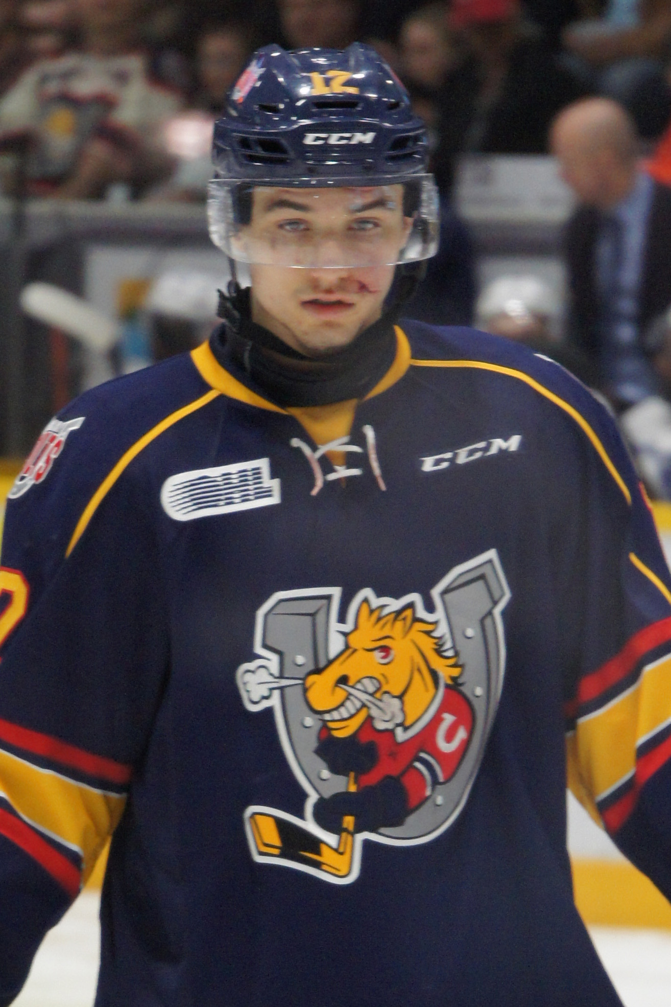 Kevin Labanc playing for the Barrie Colts against the Mississauga Steelheads, April 5, 2016.